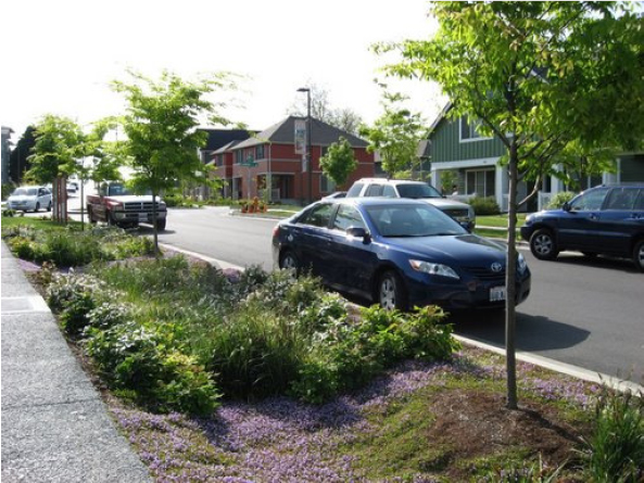 Image of street-side swale and adjacent pervious concrete sidewalk located in the High Point neighborhood of Seattle, Washington